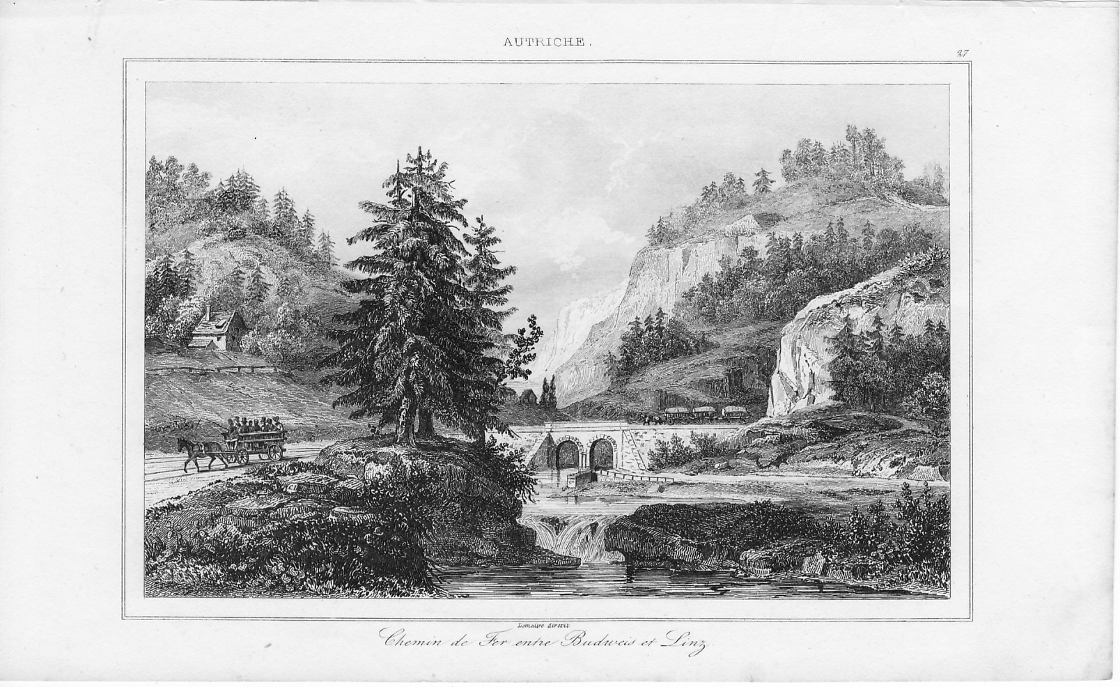 Chemin de fer hippomobile entre Budweis et Linz.